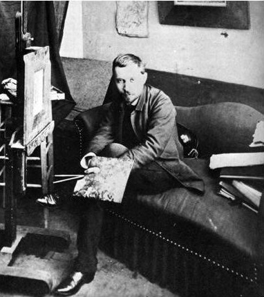 portrait of charles filiger in his studio in paris